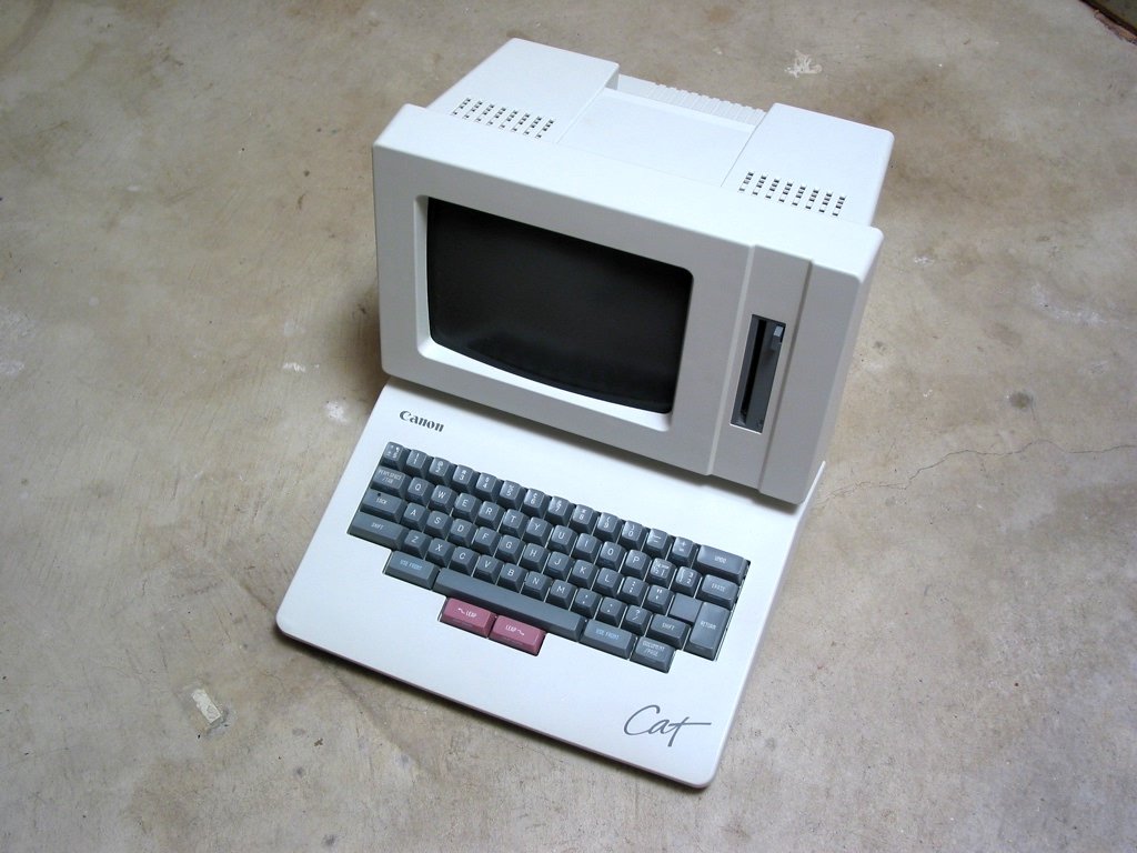 Photo of the Canon Cat desktop computer.